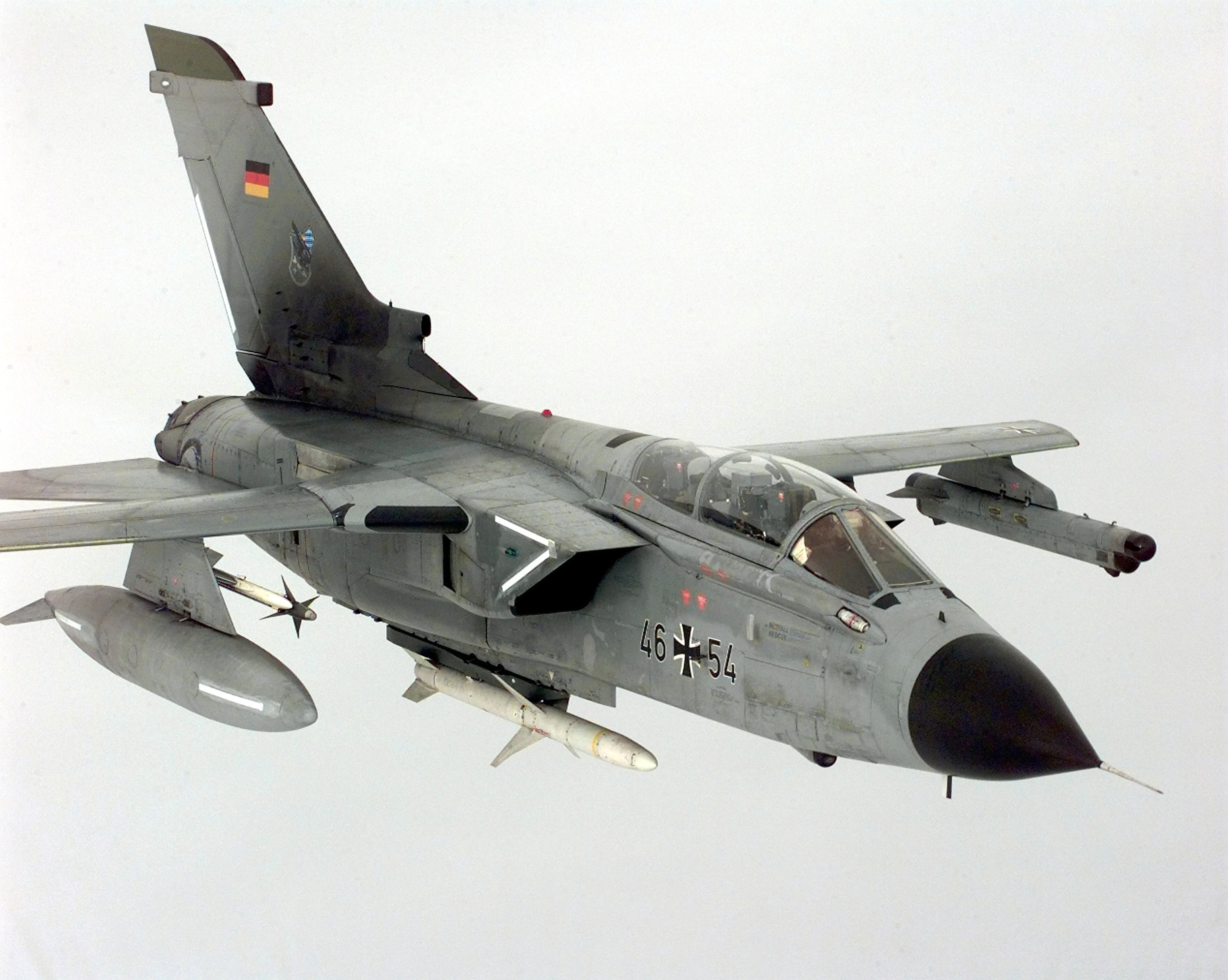 A Luftwaffe (German Air Force) Panavia Tornado ECR (s/n 46+54) of JaboG 32, Lechfeld (Germany), armed with an AIM-9 Sidewinder air-to-air missile and a jamming pod attached to the wings, and an AGM-88 HARM air-to-ground missile attached to the underside of the fuselage heads back towards its patrol area after refueling from a USAF Boeing KC-135R Stratotanker (not shown) of the 100th Air Expeditionary Wing. JaboG 32 (32nd Fighter-Bomber Wing) is one of the German Air Force's premier combat aircraft wings. The Tornado ECR is a specialized aircraft to detect and attack surface radars and surface-to-air missile launchers (a.k.a. Wild Weasel aircraft). JaboG 32 Tornadoes took part in Operation Allied Force from 24 March to 11 June 1999. They flew for 2.108 hours in 446 sorties over former Yugoslavia and the Kosovo and launched 236 HARM missiles. The KC-135R was assigned to the 92nd Air Refueling Wing, Fairchild Air Force Base (Washington, USA), but was deployed to Royal Air Force Base Mildenhall to bolster the 100th AEW in support of NATO Operation Allied Force. Both assigned tankers and deployed tankers flying from RAF Mildenhall made up a large portion of the tanker assets supporting NATO aircraft in NATO Operation Allied Force in 1999.